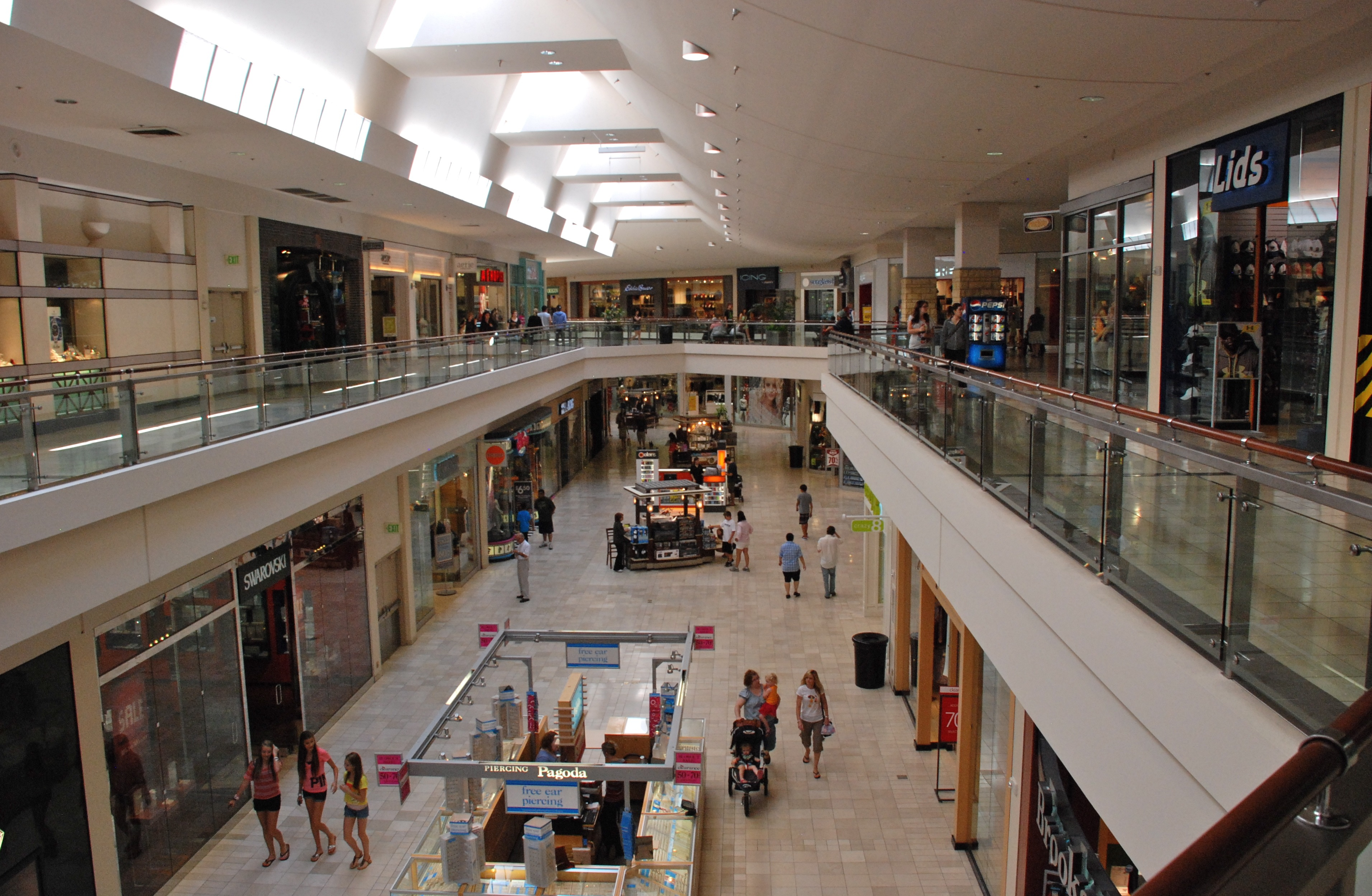 Interior of the Clackamas Town Center mall, west wing, looking east.